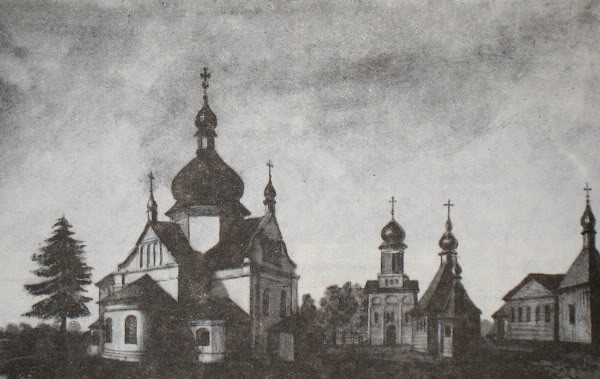 Monastery near Vorša